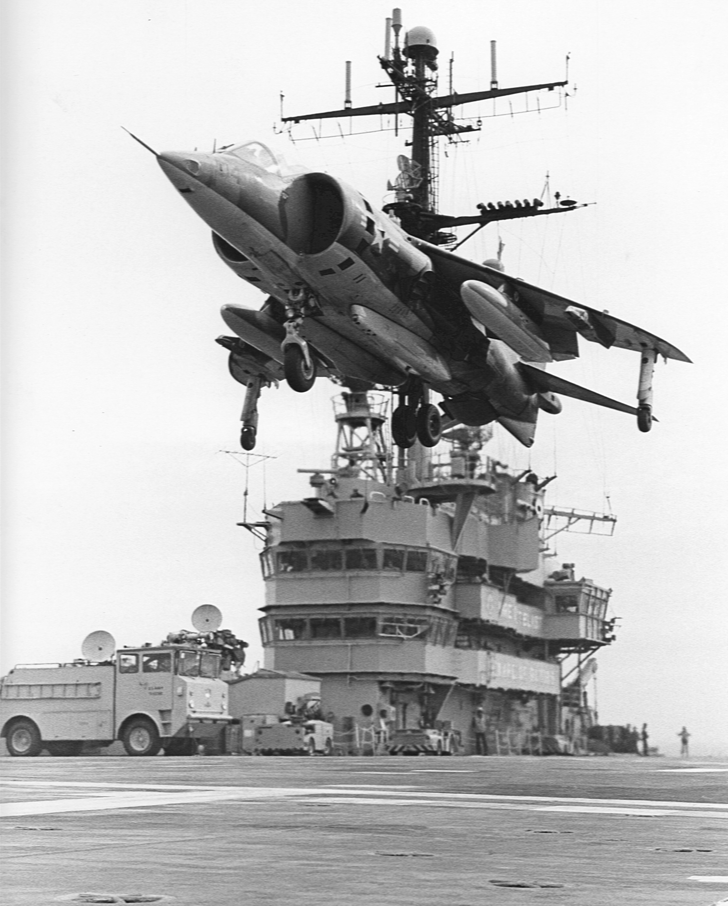 A U.S. Marine Corps Hawker Siddeley AV-8A Harrier hovering over the flight deck of the amphibious assault ship USS Guam (LPH-9) during interim sea control ship tests in the Atlantic Ocean in January 1972. The Guam was the test bed for the first operational exercise of the SCS concept with HS-15 SH-3 Sea King and VMA-513 AV-8A Harrier aircraft. HS-15, the first SCS (Sea Control Ship) helicopter squadron, had formed at NAS Lakehurst in October 1971. At-sea tests commenced in January of 1972. The operations were significant in near term concept development of small carrier applications in limited combat environments and in future changes in U.S. Navy force structure related to ASW/Sea Control employment and operation of helicopters, notably the coming Sikorsky H-60 Seahawk series. Object Notes